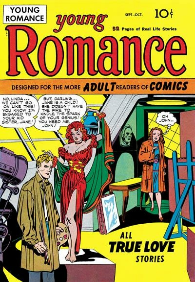 Cover of Young Romance 1 (Sept/Oct 1947 Crestwood Publications). Art by Joe Simon and Jack Kirby.